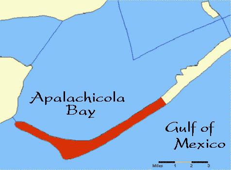 Cape St. George Island, Florida is a state park on the beach, that can be camped on with reservations. It is on Florida's panhandle in the Gulf of Mexico. Many fishing tours are available and so are oyster finding ones.